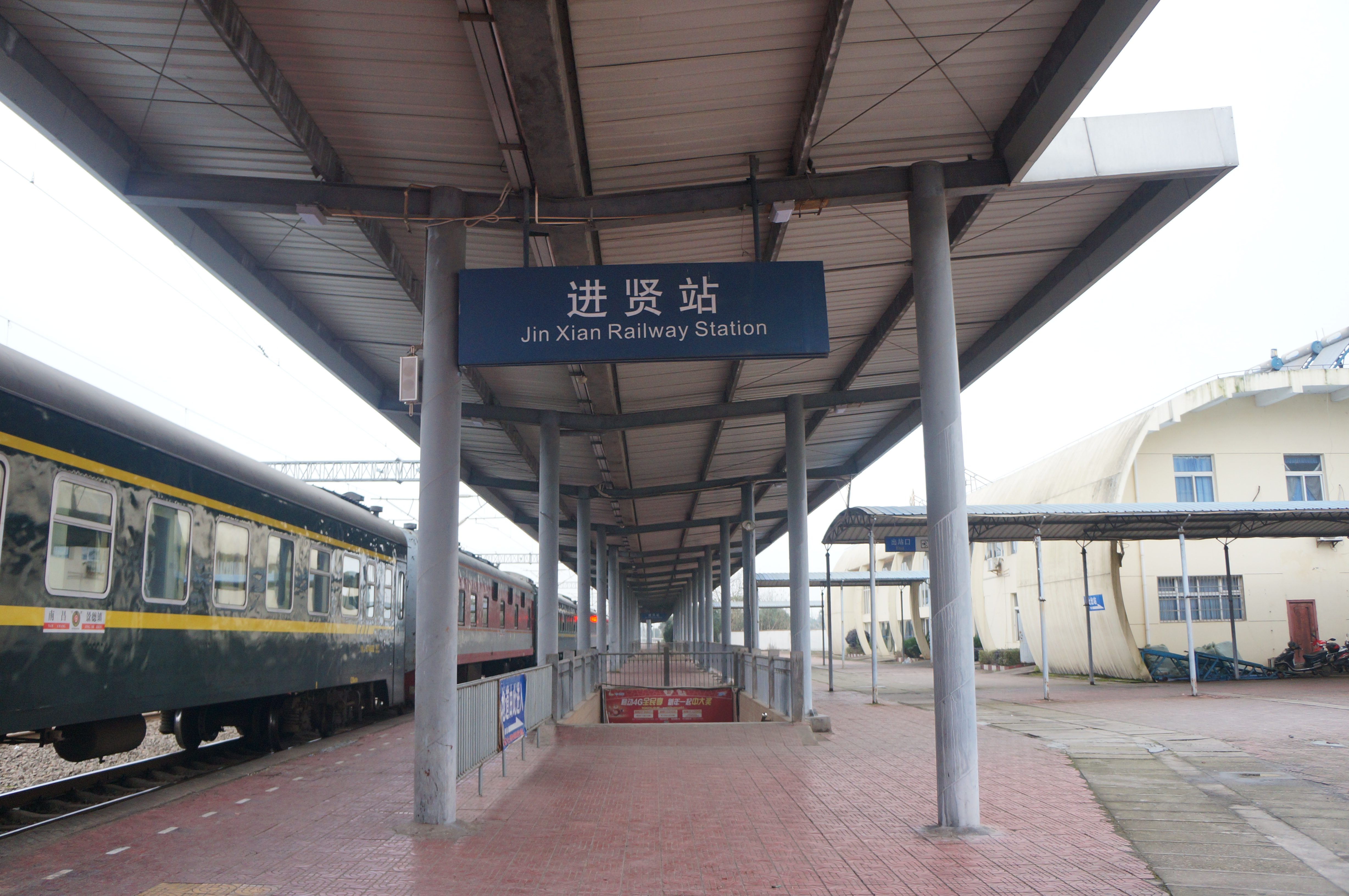 201612 Platform 1 of Jinxian Station